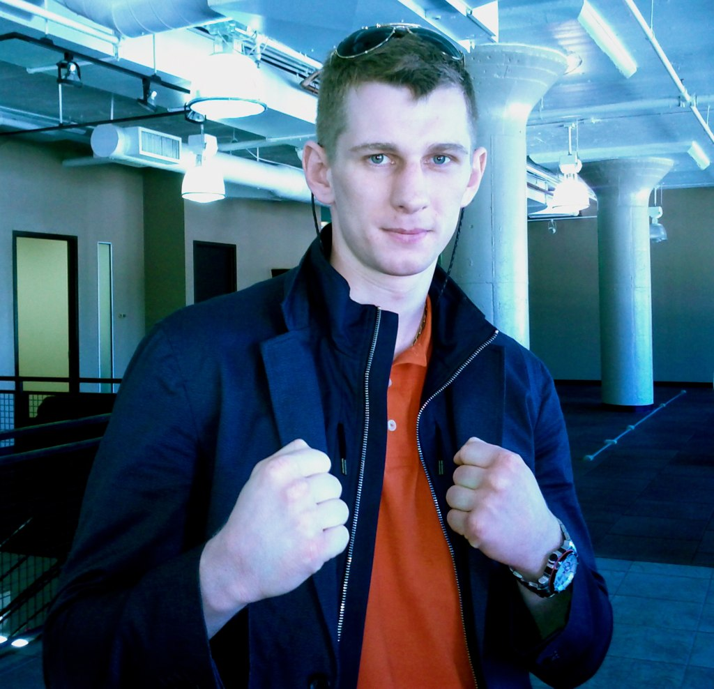 Andrzej Fonfara.